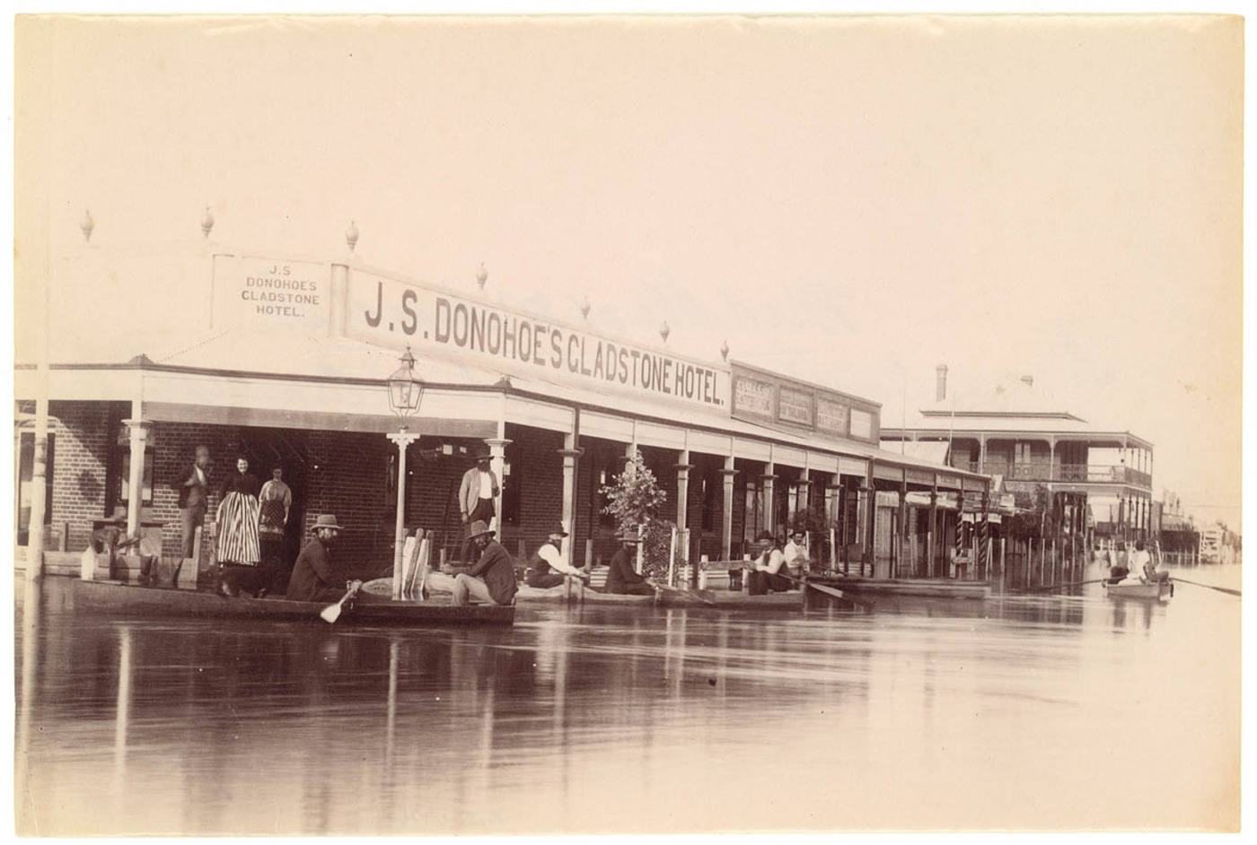 Format: Photograph Find more detailed information about this photograph: .au/item/itemDetailPaged.aspx?itemID=421796 Search for more great images in the State Library's collections: .au/search/SimpleSearch.aspx From the collection of the State Library of New South Wales